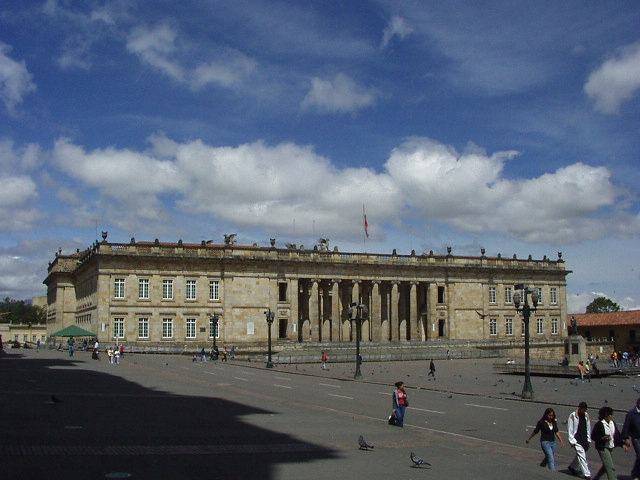 Capitolio Nacional of the Republic of Colombia, Bogotá, Colombia. The Plaza of Bolivar.The Senate and the Chamber of Representatives is there.